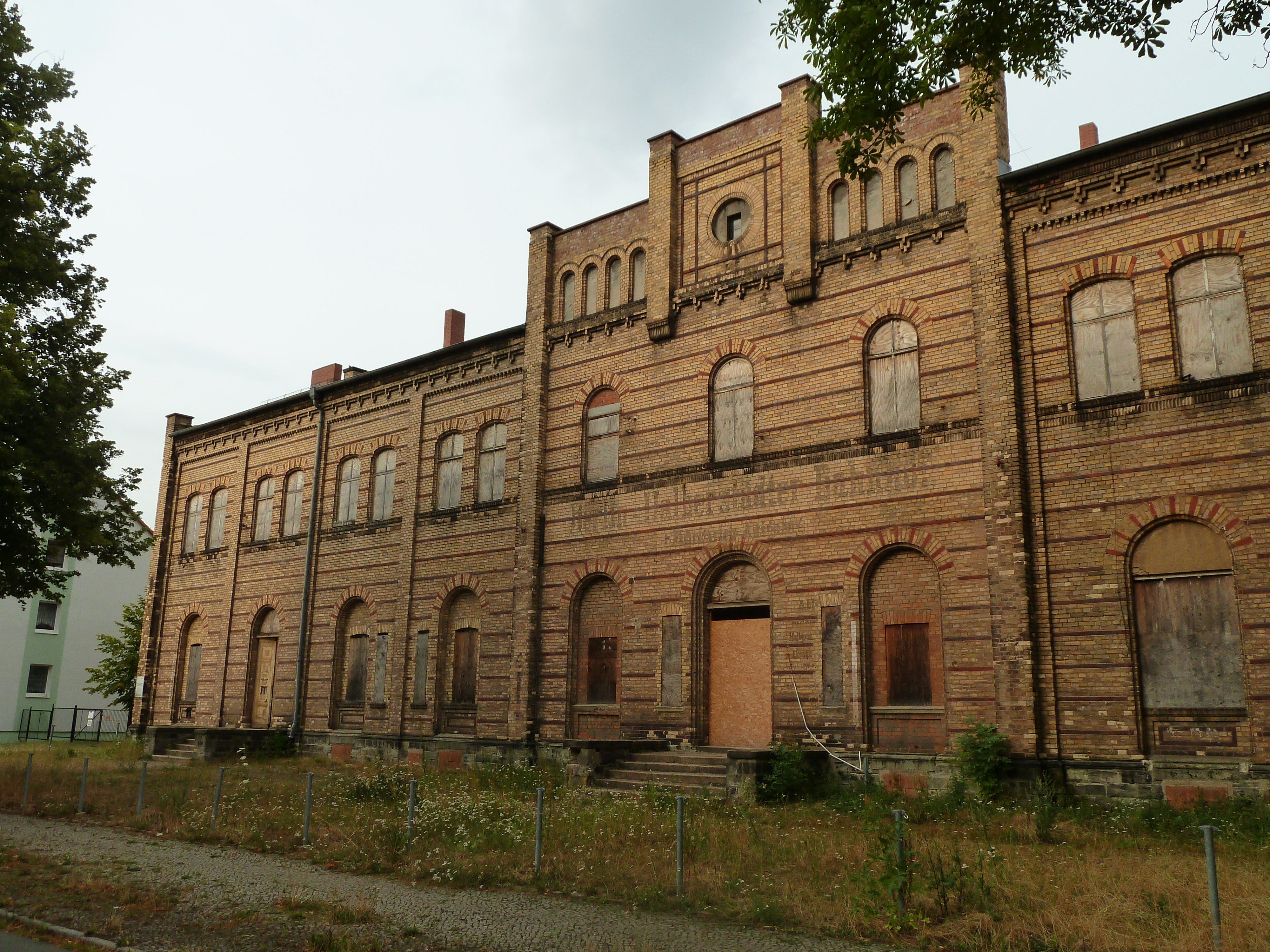 The Berlin-Halberstädter Bahnhof at the Georgstraße in Köthen (about 150m west from the recent Köthen station) was in use from about 1870/71 to 1917. The neogotic building is part of sequences of station buildings from different epoches wich is unique for Gernamy. View from west.